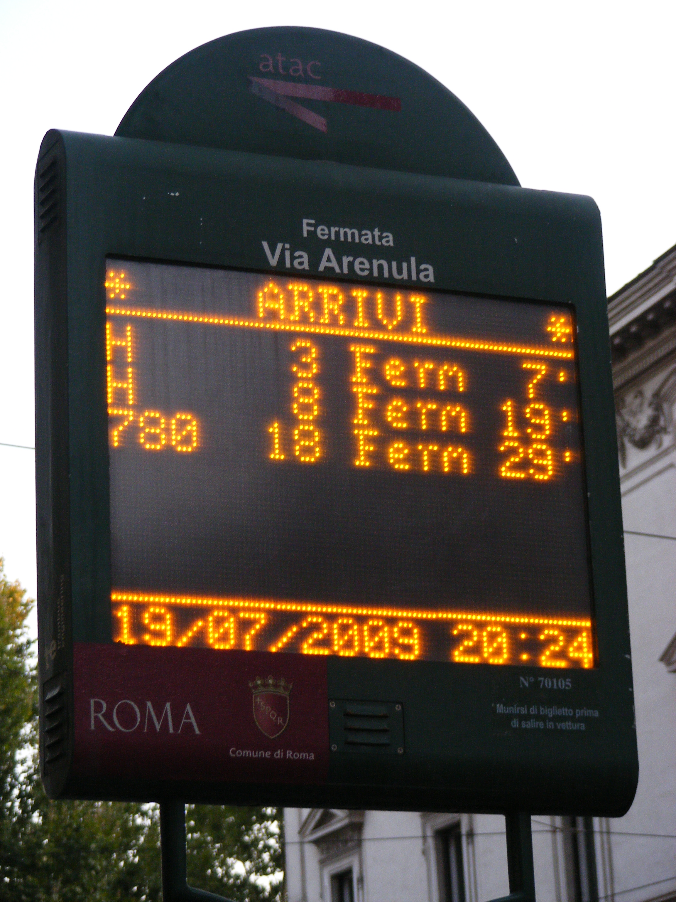 "Fermata Via Arenula" (Rione VII) - display at a tram stop.